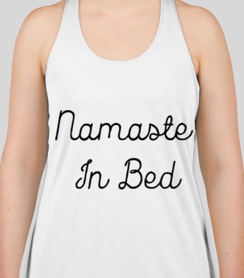 People usually wear this shirt which creates a pun through code switching to indicate that they are going to yoga or going to sleep to promote laziness and zen with the language Hindi, though 'namaste' is not associated with yoga in Hindi.